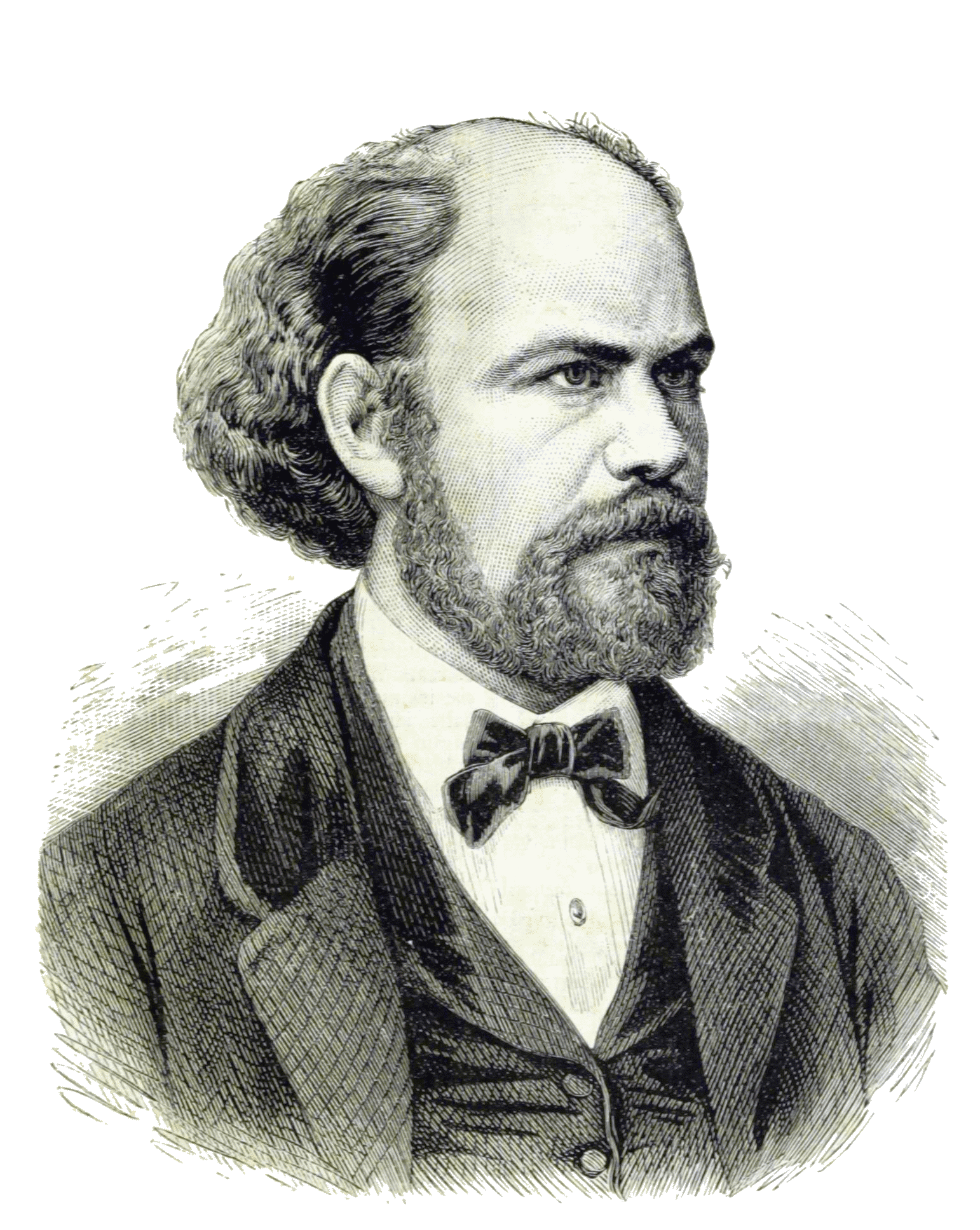 Julius Anton Glaser (1831–1885), Austrian jurist and politician